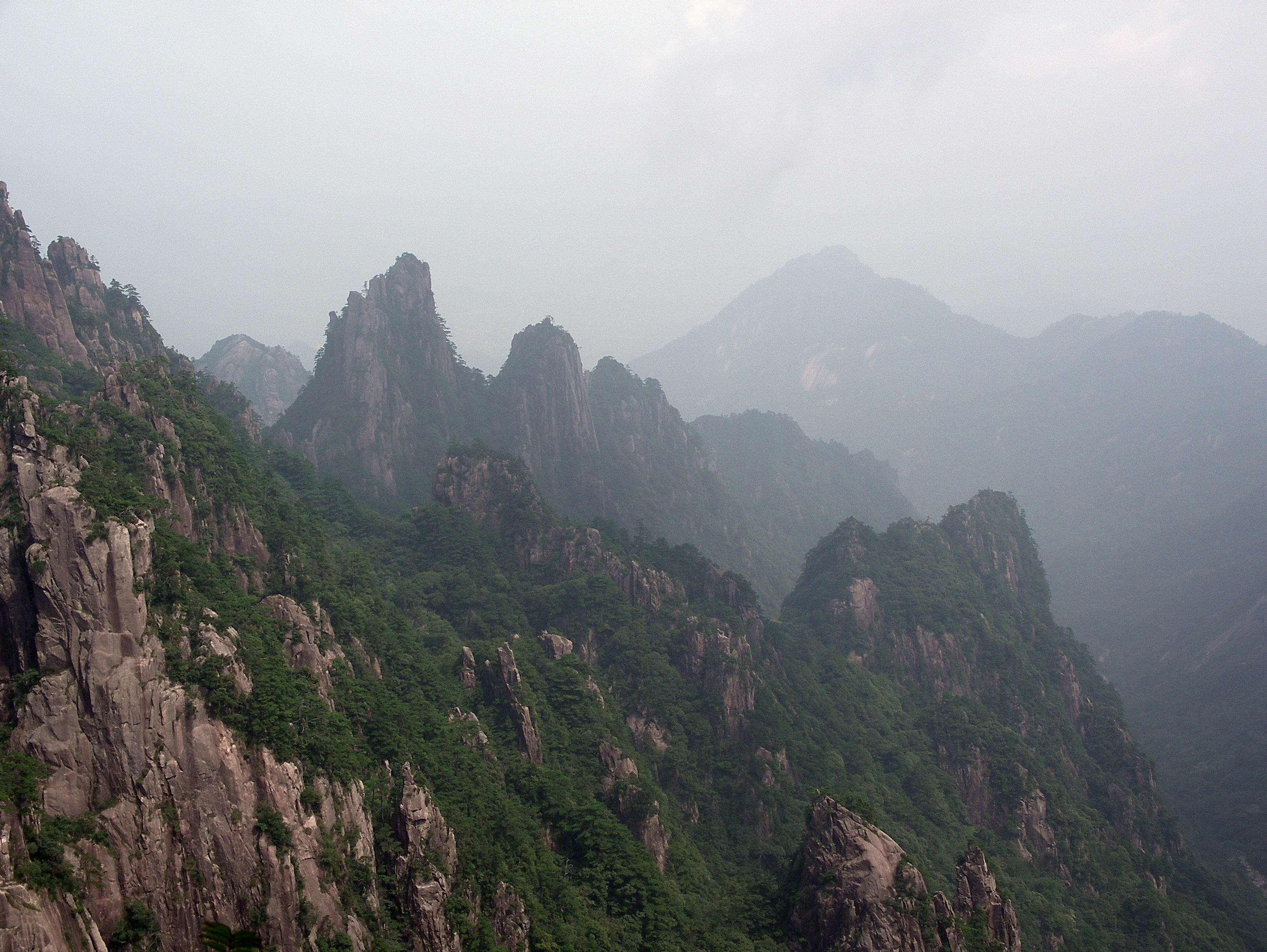 Freddy, picture taken by myself